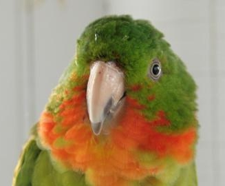 Red-throated Conure or Red-throated Parakeet (Aratinga rubritorquis) upper body.